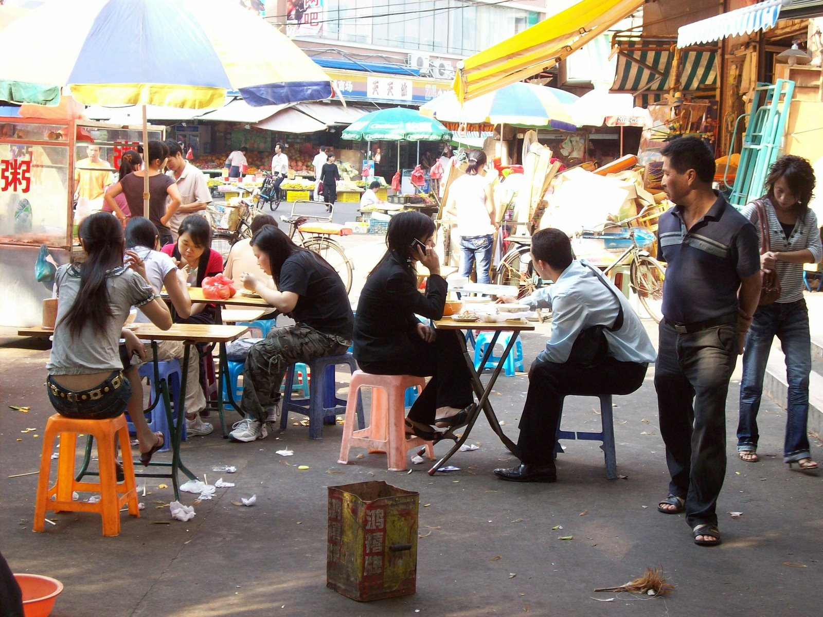 Basic street grub in Zhuhai Zhuhai, Guangdong Province, China 2006. source:me.